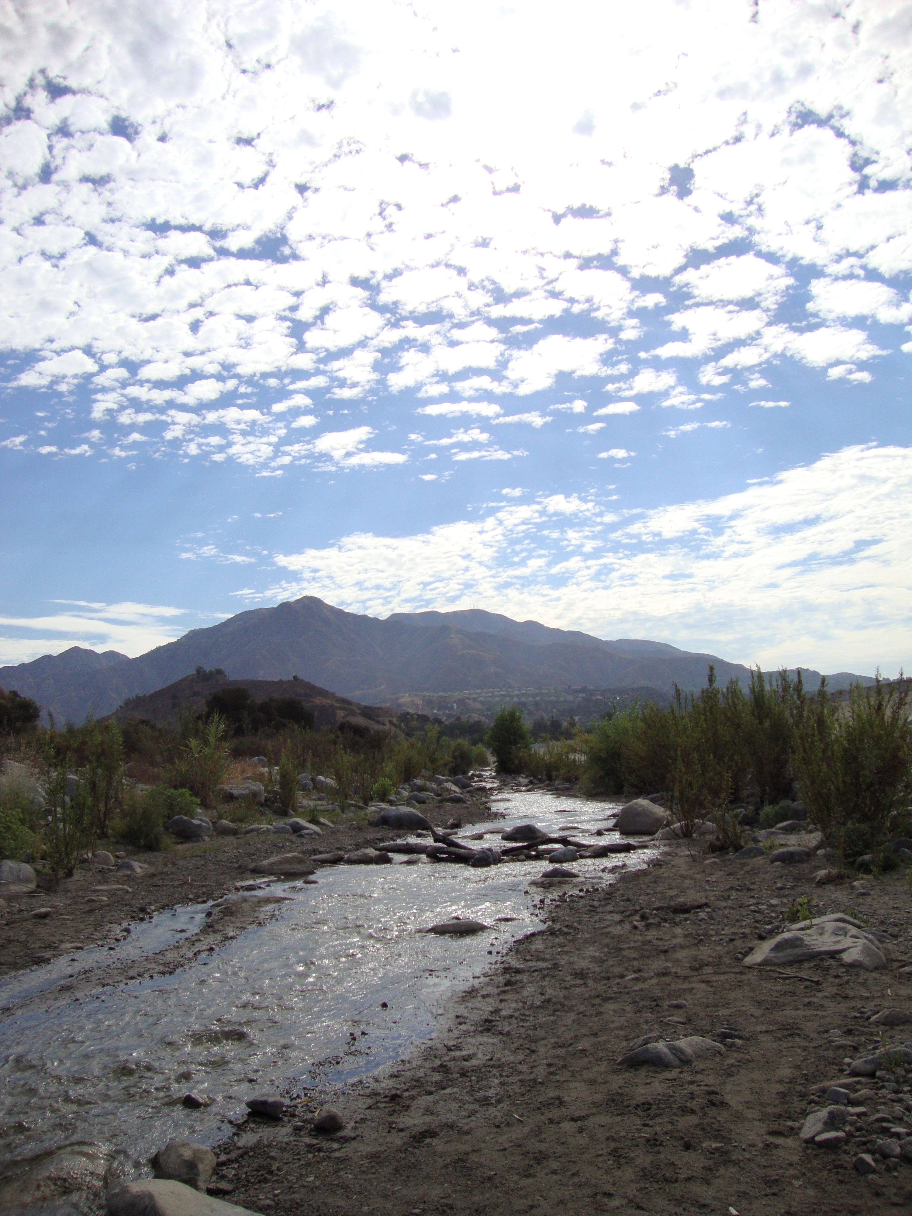 View of Big Tujunga Creek in upper Big Tujunga Wash, with the Tujunga foothills of the Verdugo Mountains (of the Transverse Ranges) in backround. View from Big Tujunga Canyon, Southern California, USA.